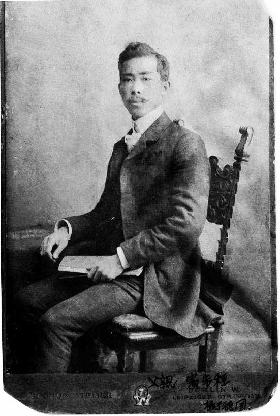 Bin Bucheng (1879－1943)